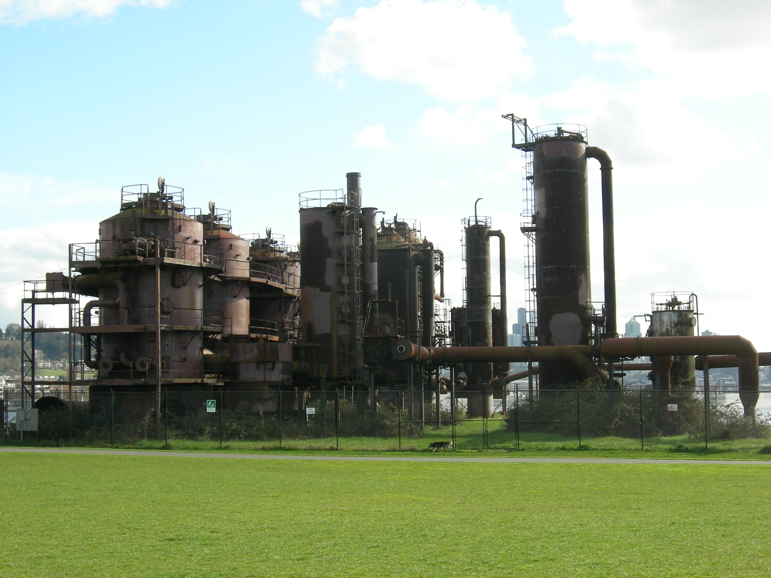 View of the park looking toward the disused gasworks